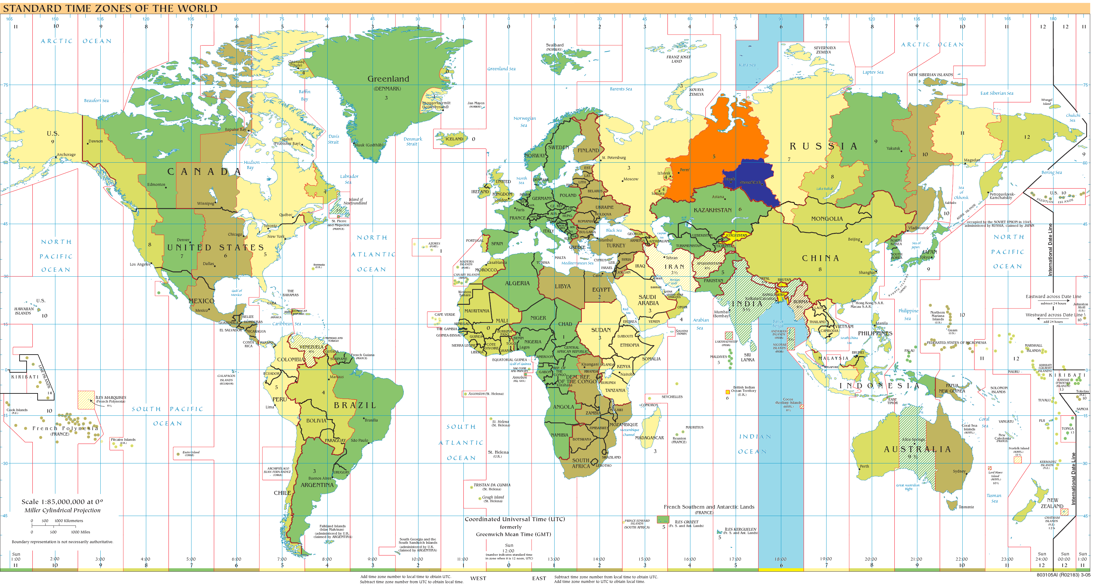 Copy of Timezones2008.png highlighting UTC+6 Dark Blue: UTC+6 during Northern Hemisphere Winter / Southern Summer Orange: UTC+6 during Northern Hemisphere Summer / Southern Winter Yellow: UTC+6 all year round Light Blue: UTC+6 sea areas